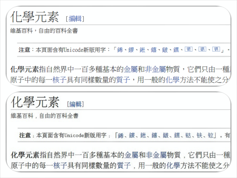 screenshot of wikipedia, the Chinese ver of chemical element, using Firefox 26.0 and Windows 7